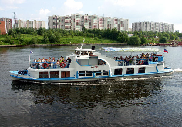 "M-236" on Moskva river in Maryino (Moscow) (2005). Project 544